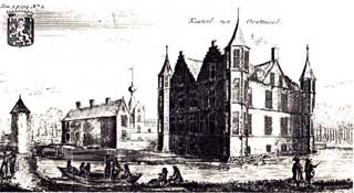 Drawing of the old Renesse castle in Oostmalle, Belgium, showing the situation before 1793 when the main court was demolished. The engraving dates from about 1680 and was published in the Notitia Marchionatus Sacri Romani Imperii, Grand Théátre sacré et profane du Duché de Brabant of baron Jacobus (Jacques) Le Roy.